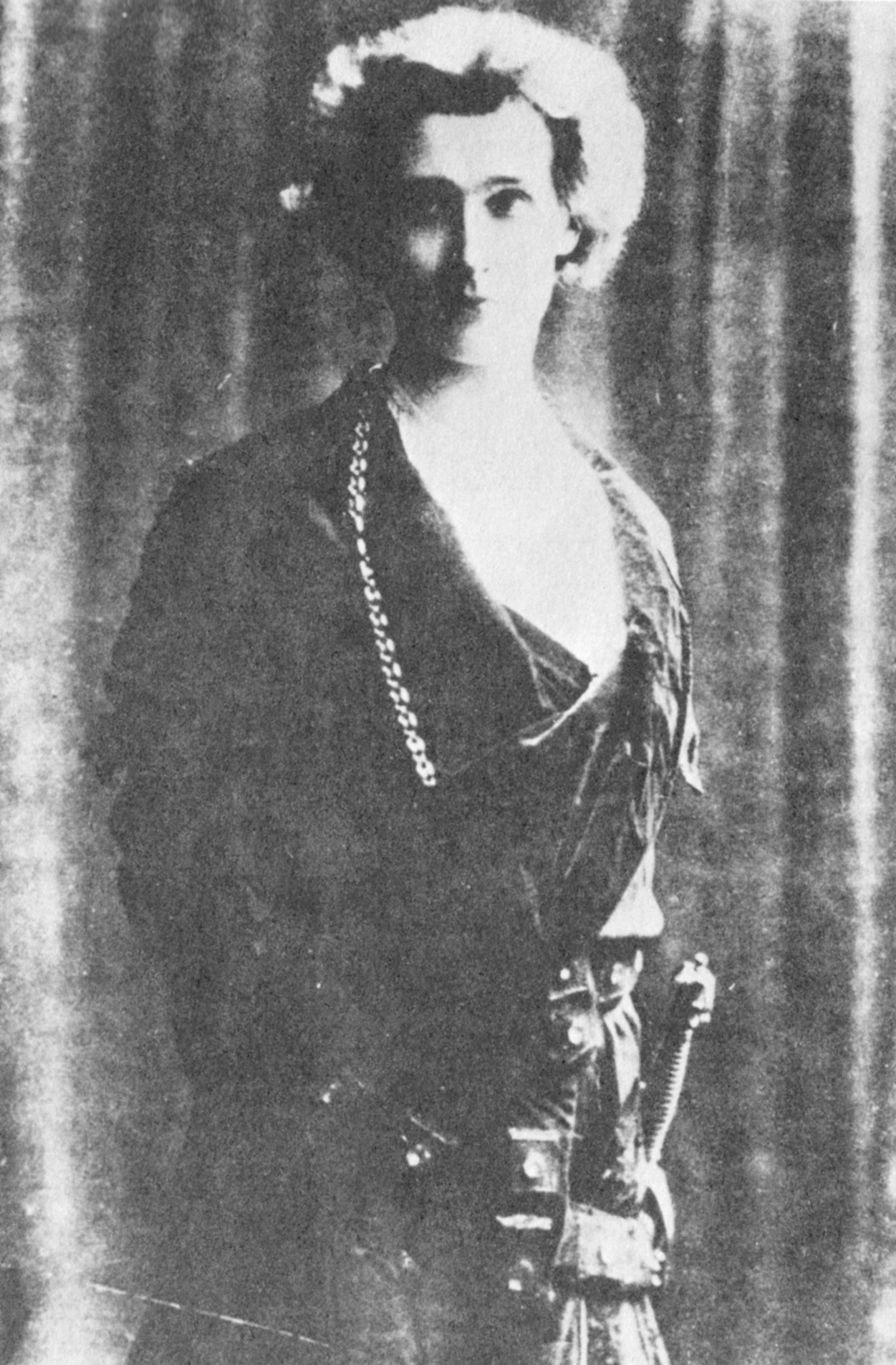 Edward Gordon Craig as Hamlet, at the Olympic Theatre in 1897, wearing Henry Irving's costume from a decade before.